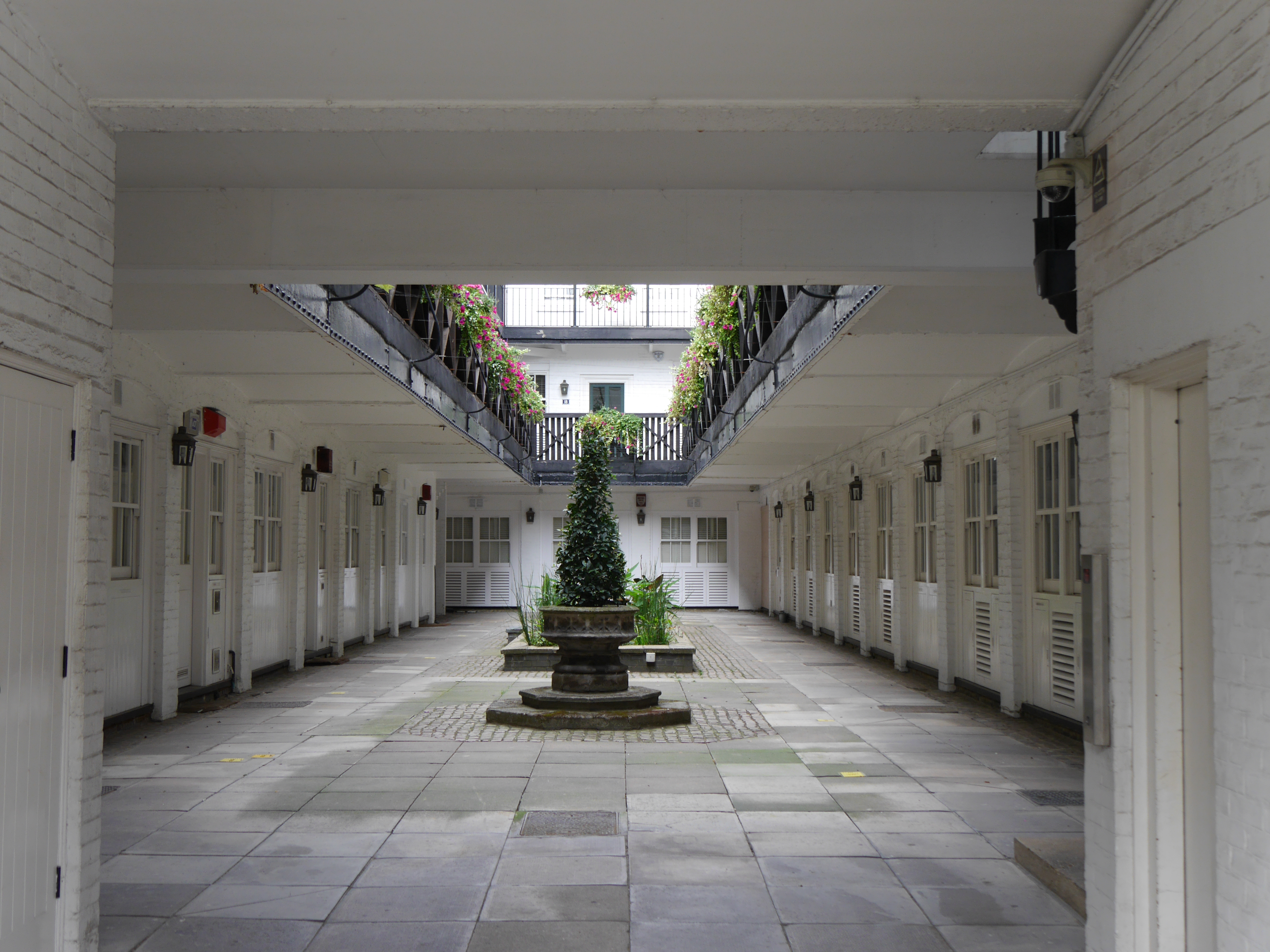 De Vere Mews, September 2014